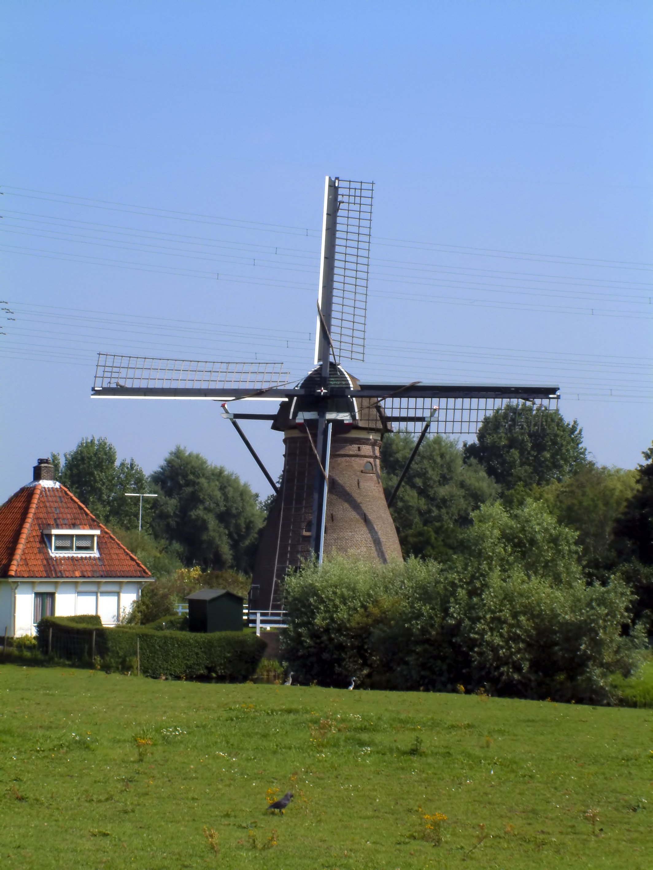 Name - Stadsmolen Address - Gooimeerlaan 3 Municipality - Leiden